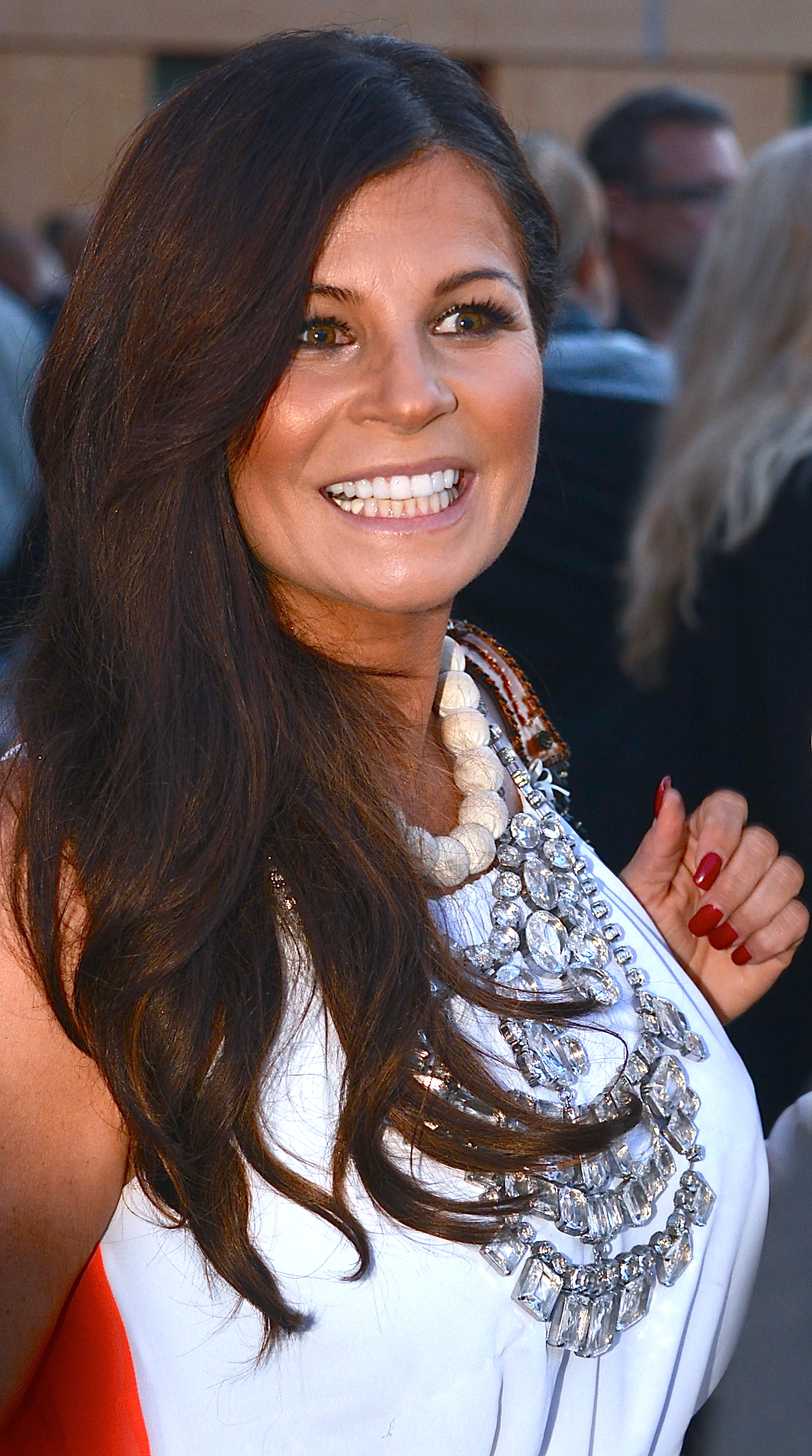 Carola at the inauguration of ABBA the Museum on Djurgården in Stockholm on 6 May 2013.